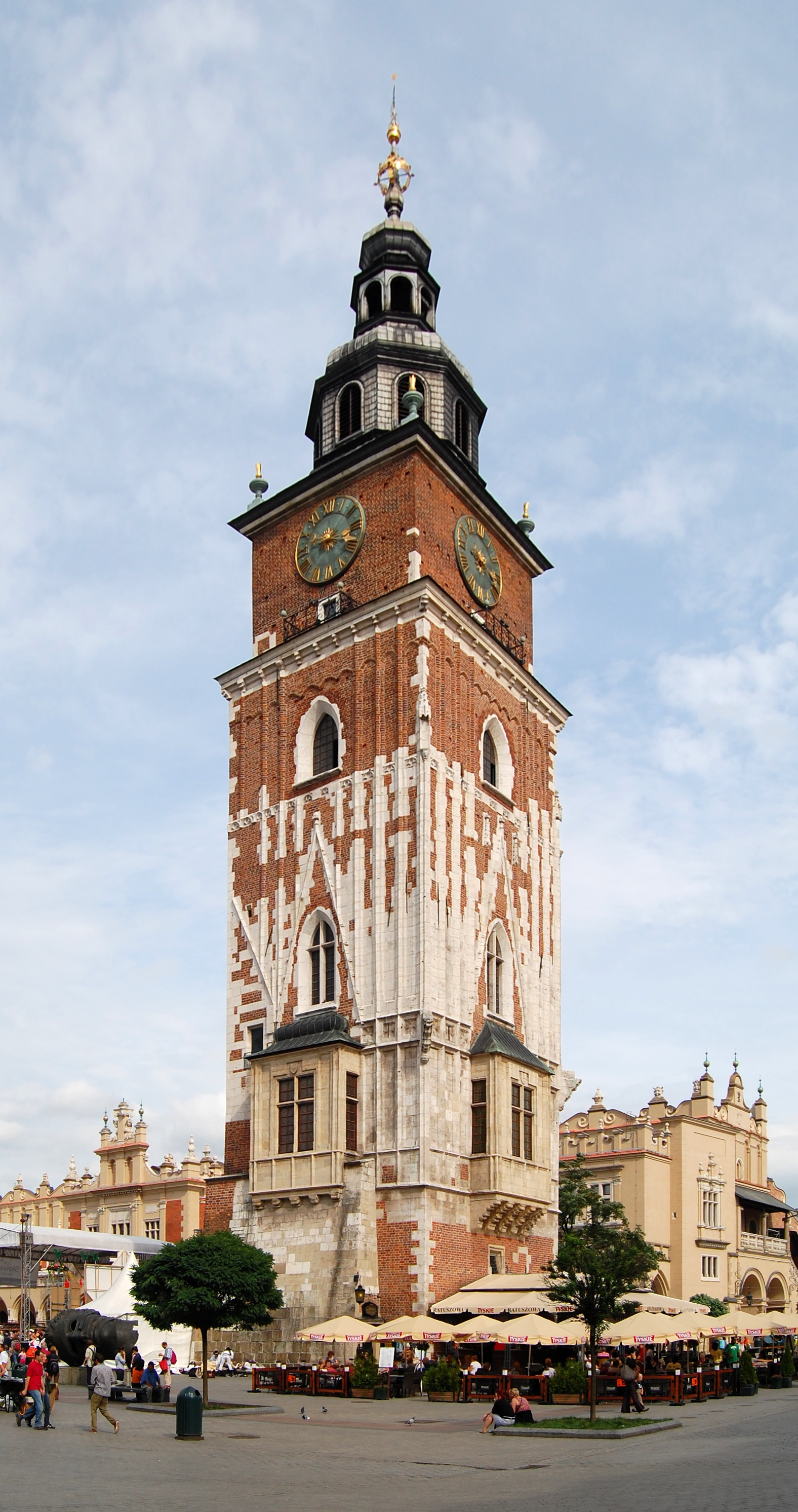 Town Hall Tower, Kraków, Poland.